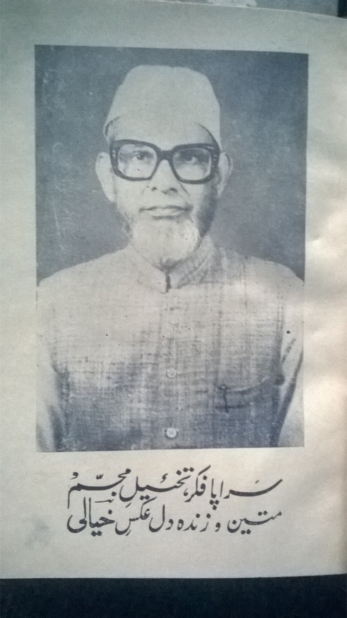 Dr.NaimUllah Khayali was a legendary poet and writer of Bahraich